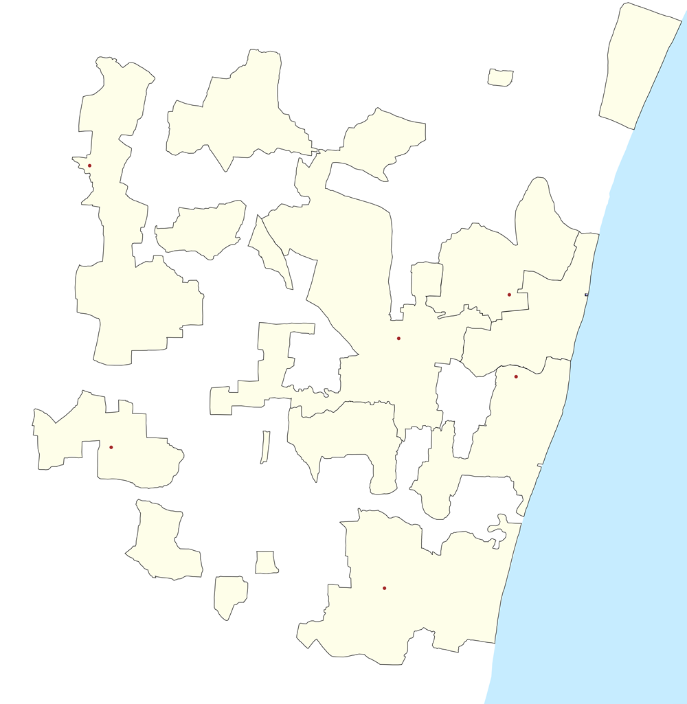 Puducherry District Outline with Communes